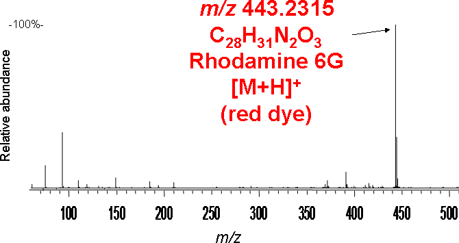 Time-of-flight mass spectrum of red ink analyzed by using DART ion source